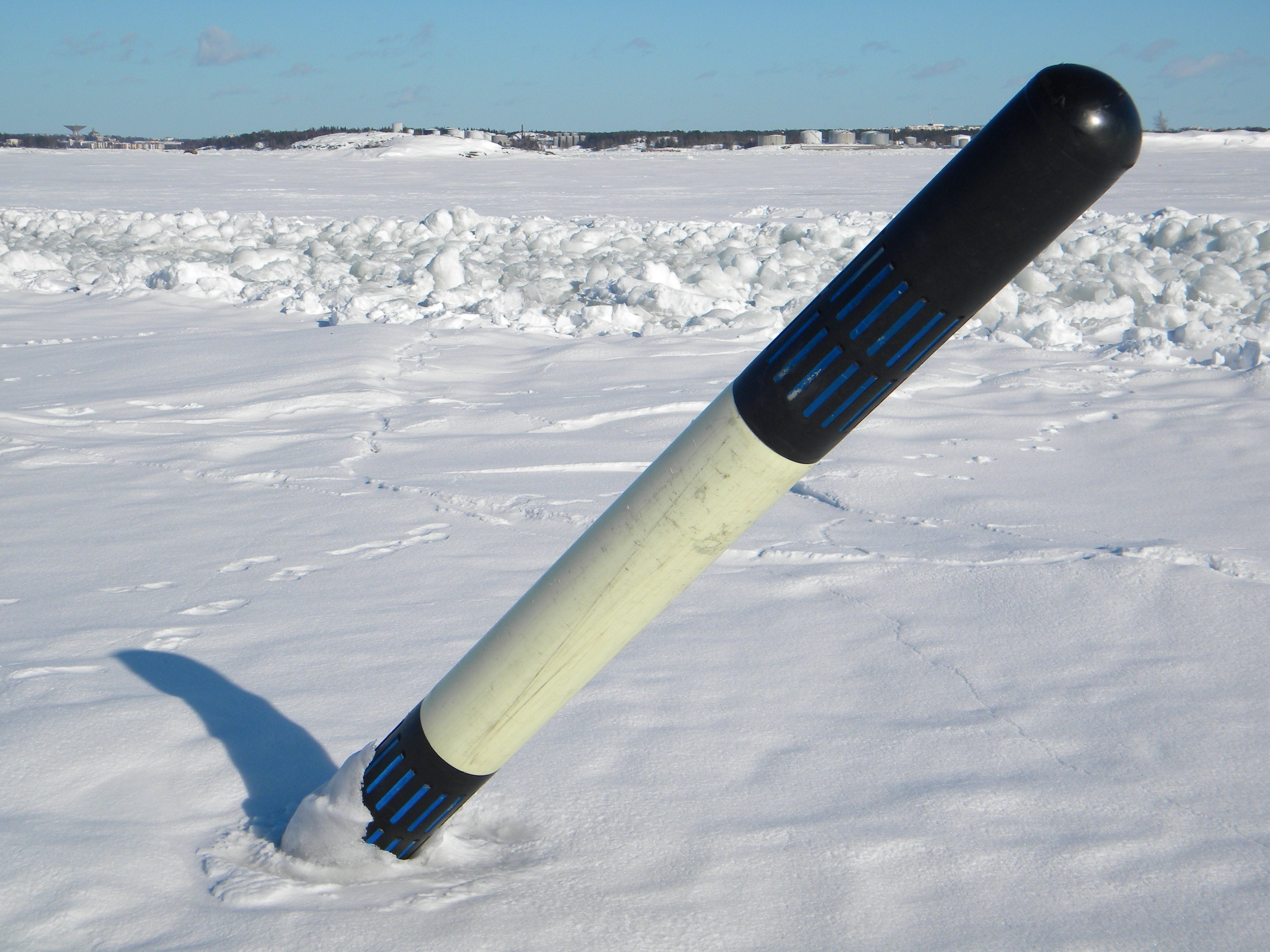 A anchored, buoying cardinal mark (east) in pressure of ice. Notice the blue reflectors on black areas of the mark. Picture taken in front of South Harbor in Helsinki, Finland in March in an icy winter. While taking this picture, the sea was open few miles ahead. This kind of light, buoying cardinal marks may move with ice or be under ice. Therefore their locations (and even existence) is checked every spring.